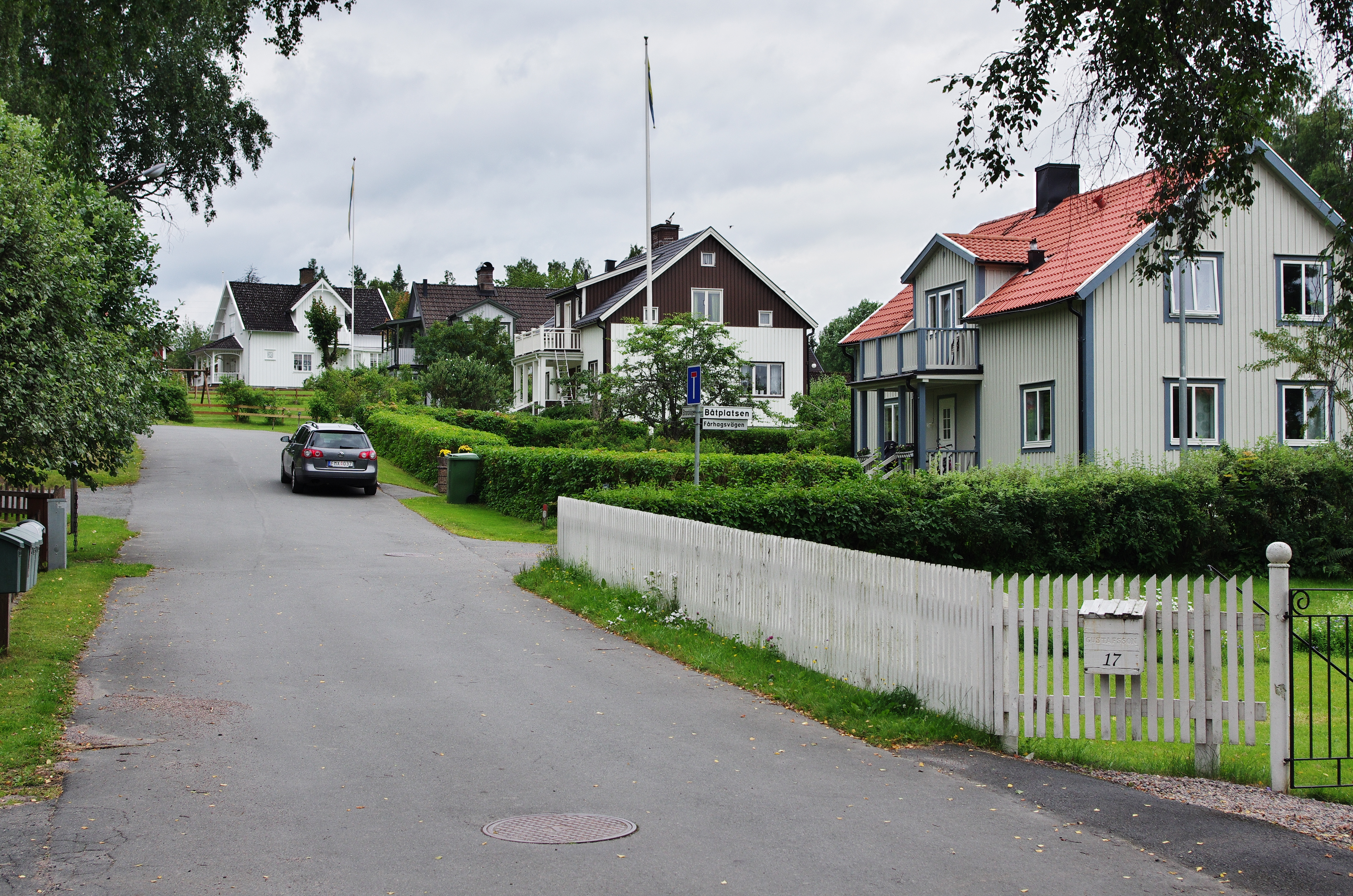 The village Furusjö in Västergötland, Sweden.